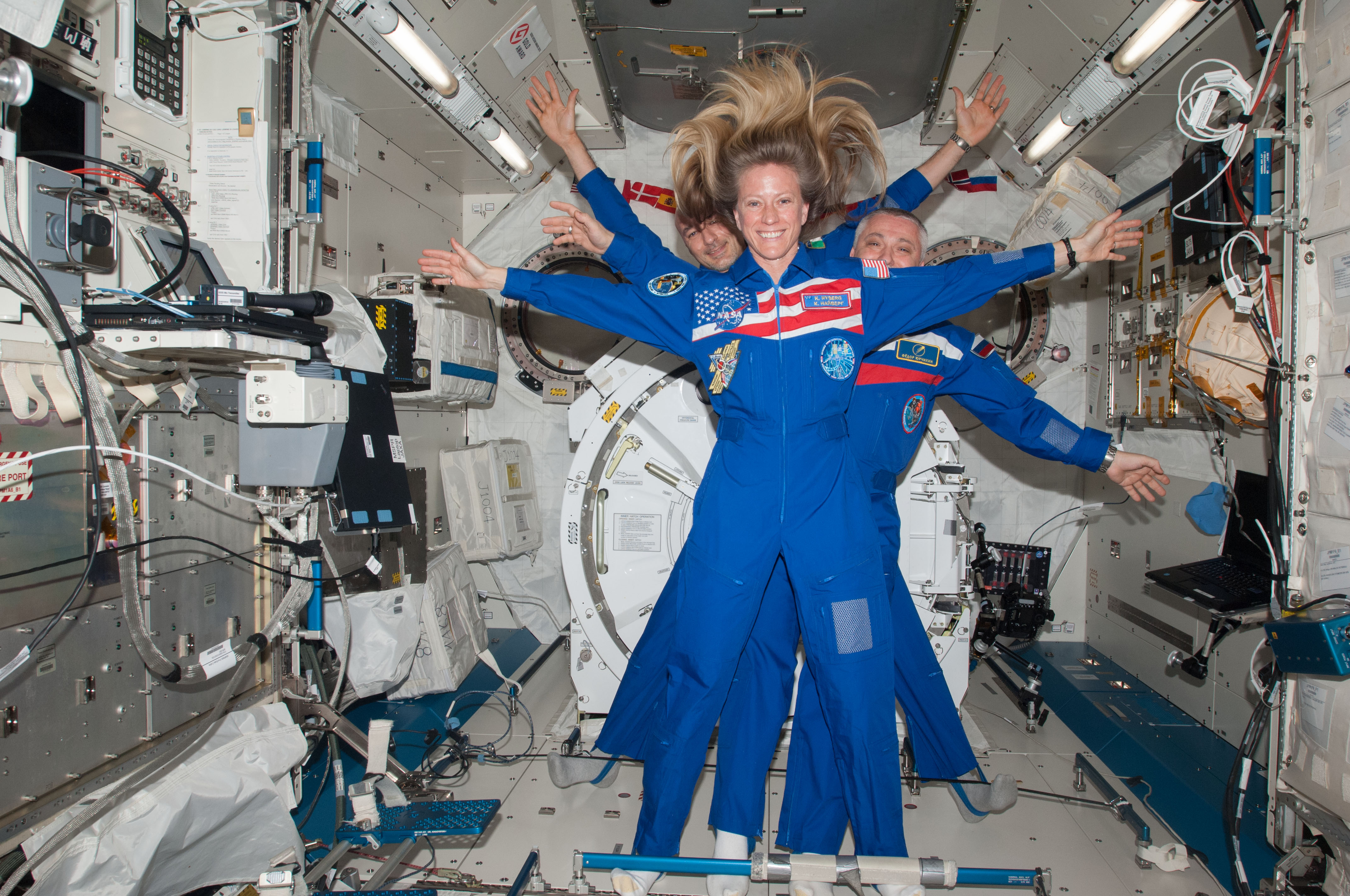 NASA astronaut Karen Nyberg, Expedition 37 flight engineer; Russian cosmonaut Fyodor Yurchikhin (center), commander; and European Space Agency astronaut Luca Parmitano, flight engineer, pose for a photo in the Kibo laboratory of the International Space Station.